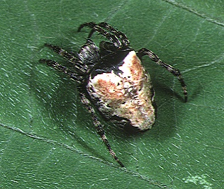 female Eriophora sagana from Okinawa.